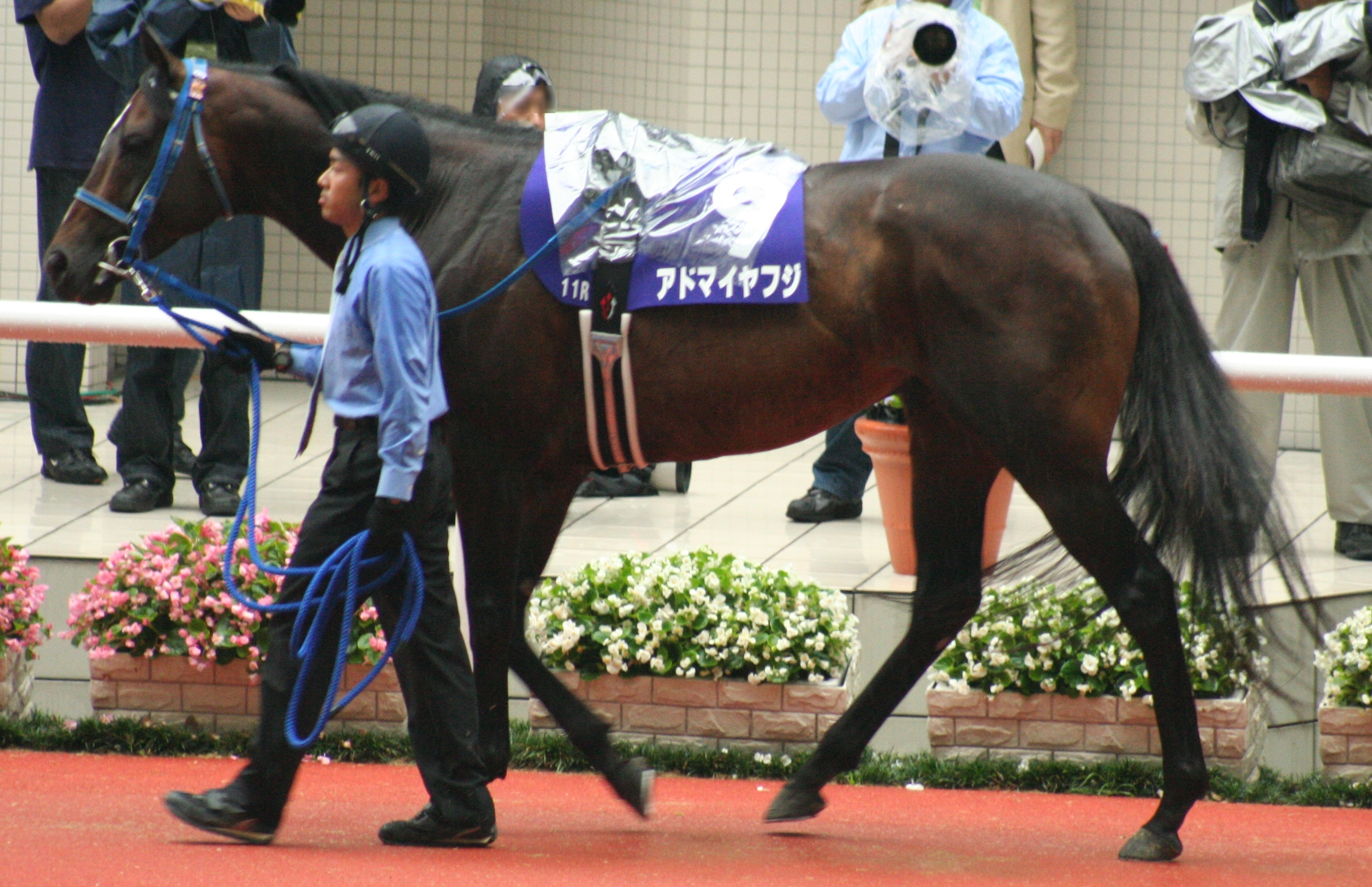 Admire Fuji (horse)